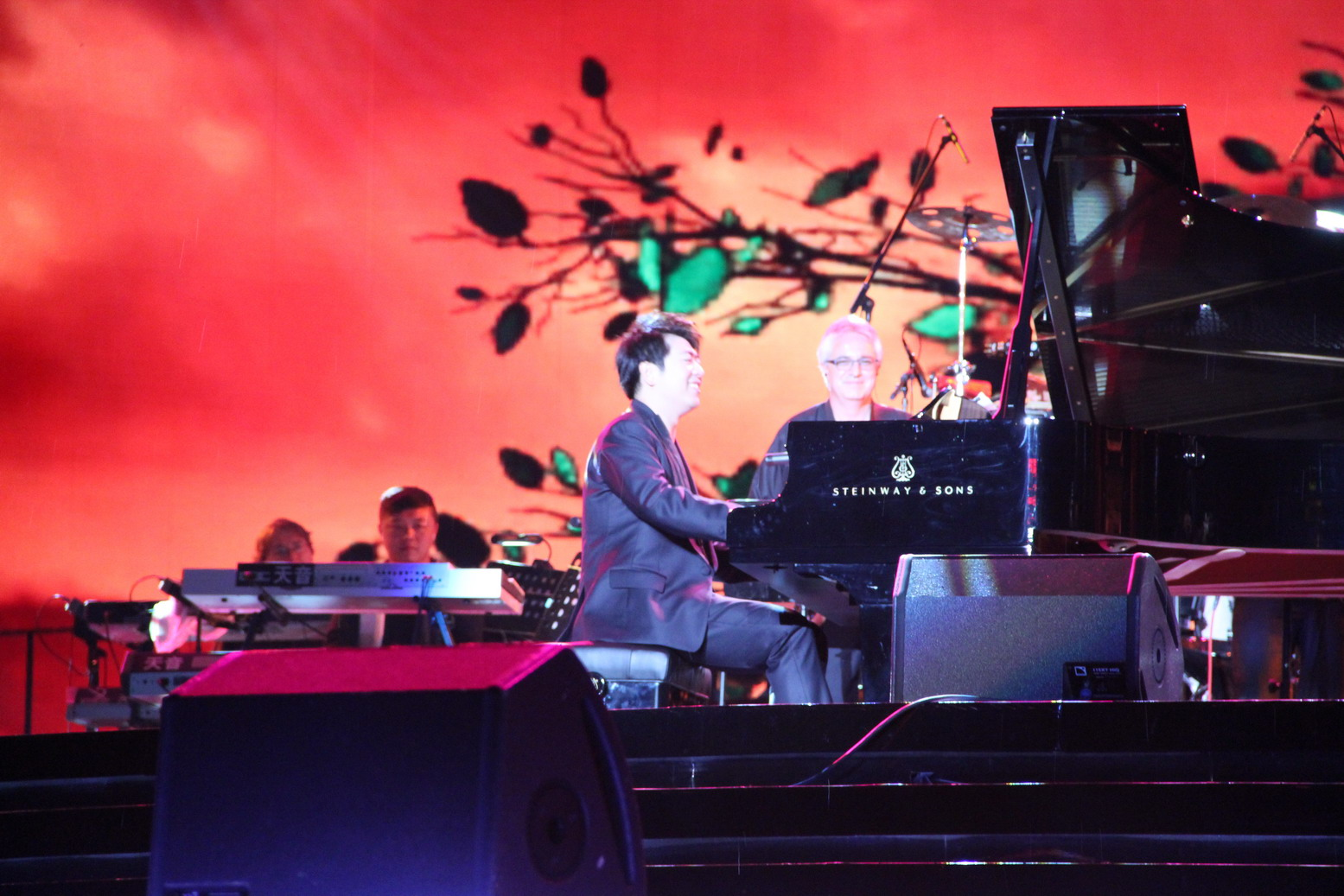 Lang Lang @ 2013 Night of Fortune Grammy Superstars, Chengdu